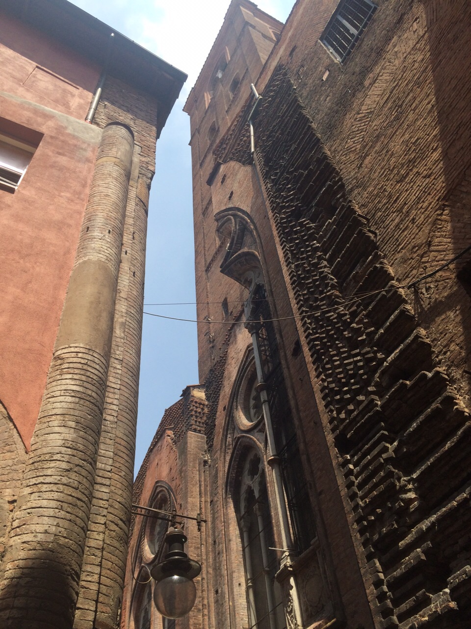 Picture of the pillars of old Comune building in Bologna